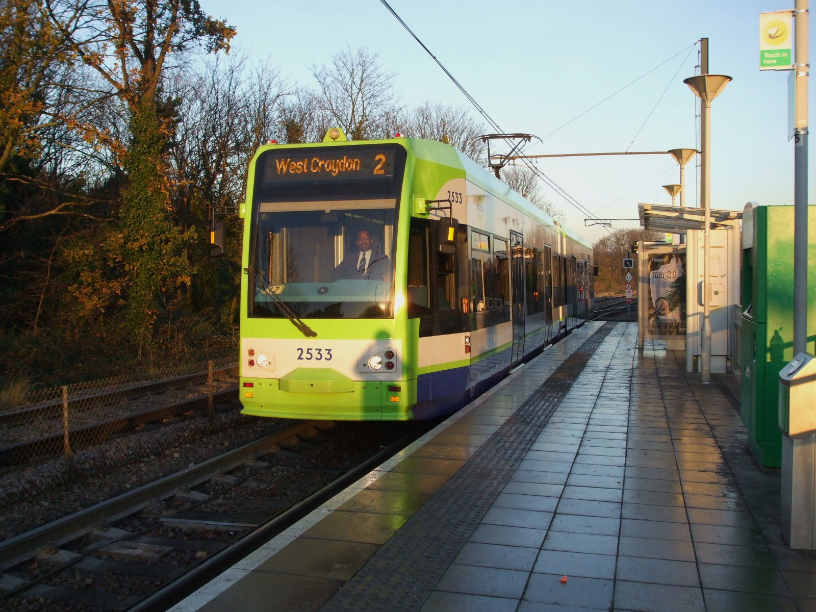 Tramlink tram 2533 calls at Beckenham Road bi-directional tramstop with a Croydon service. It sports the new livery introduced in 2008.